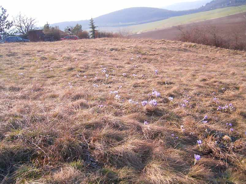 Pulsatilla grandis, Pasque flower .Sunny,stoned,dry place. Nature relic "Netopýrky", Brno Komín,Czech republic,Evropa.